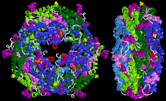 The crystal structure of R-phycoerythrin from Gracilaria chilensis (PDB ID: 1EYX). This image was created with RasTop (Molecular Visualization Software) and Adobe Photoshop Elements.